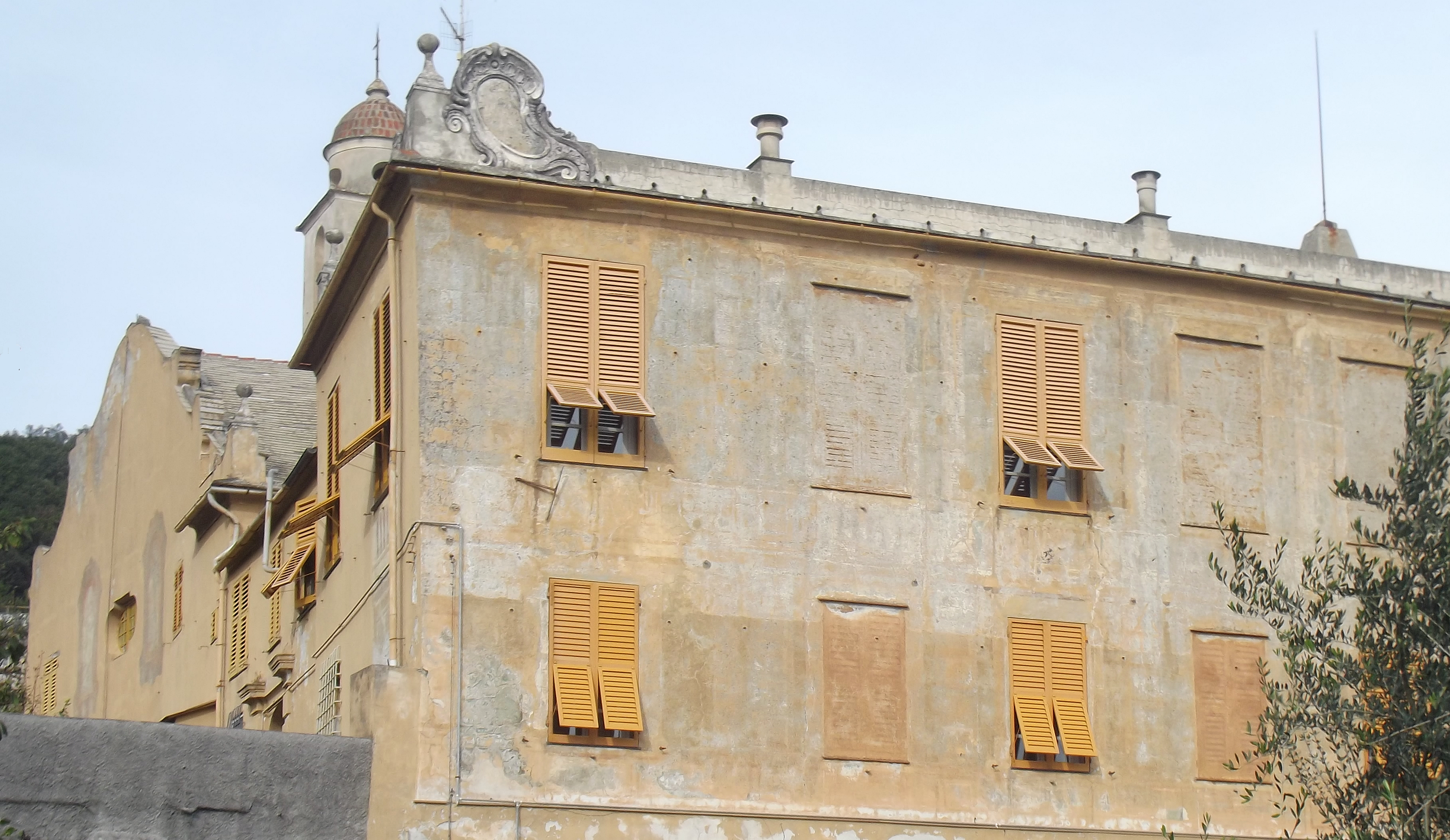 Vesima (Genoa): former convent